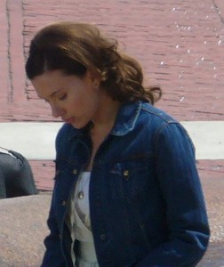 American actress Scarlett Johansson